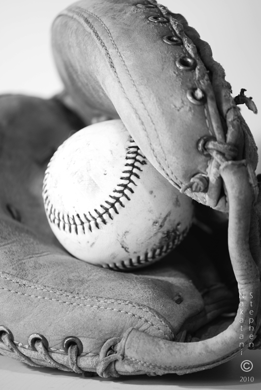 In honor of pitchers and catchers reporting today.